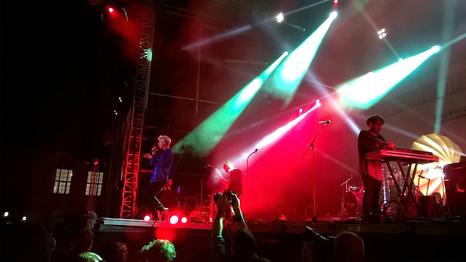 Bilderbuch am Voices for Refugees - Solidaritätskonzert Wien 2015